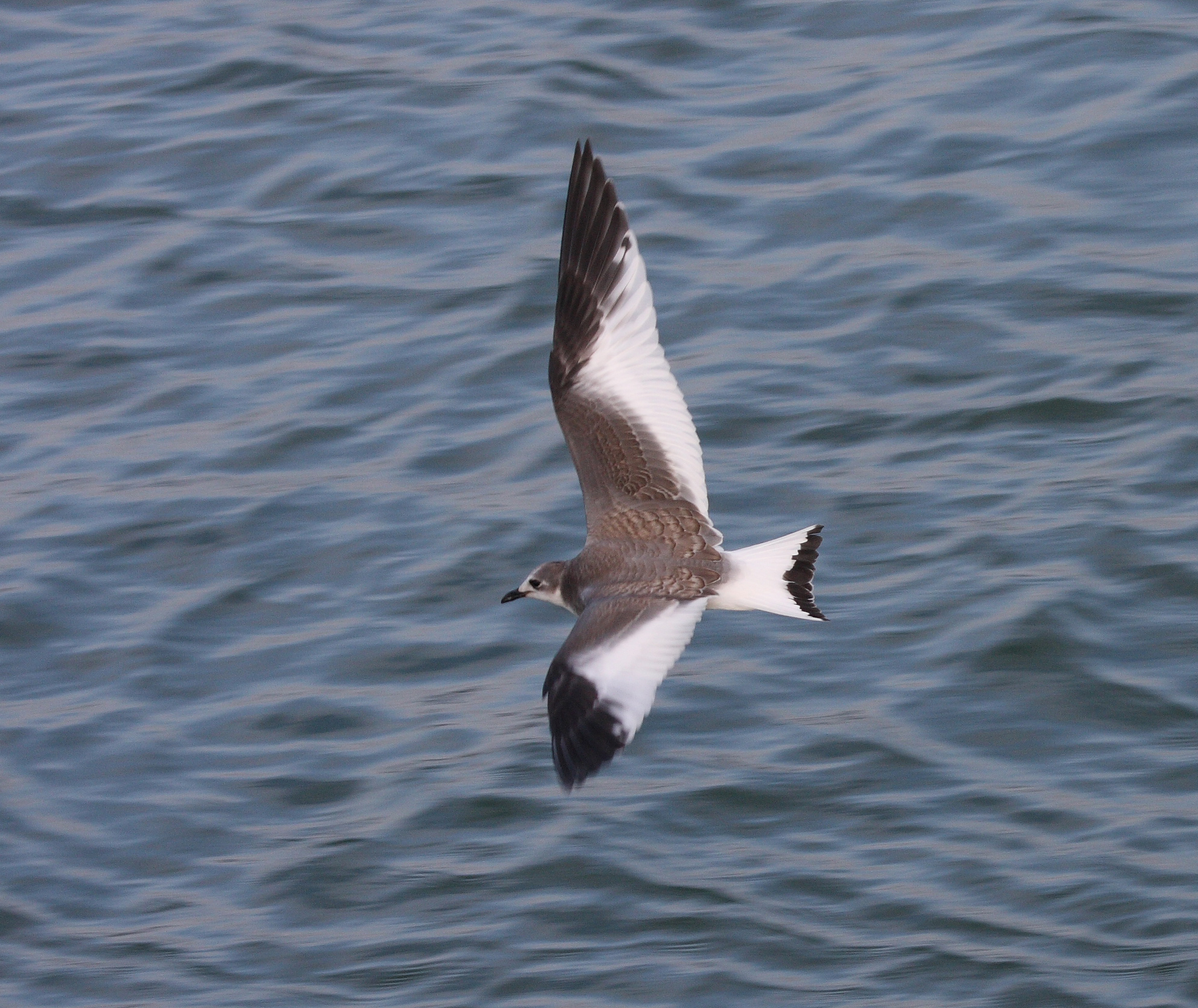 Sabine's Gull juvenile. Niagara River, Buffalo, New York.